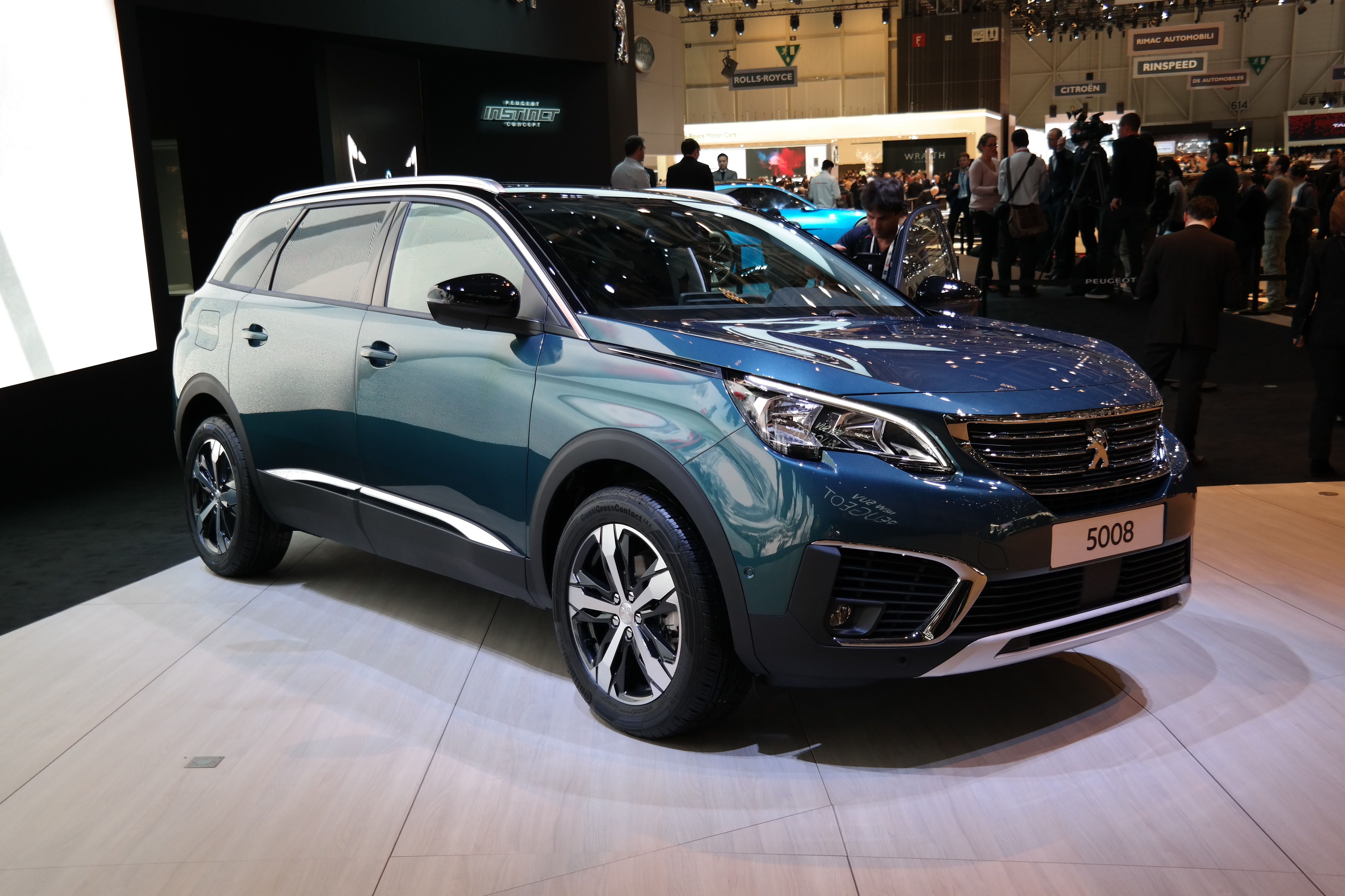 Geneva Motor Show 2017 (photo taken on the first press day)